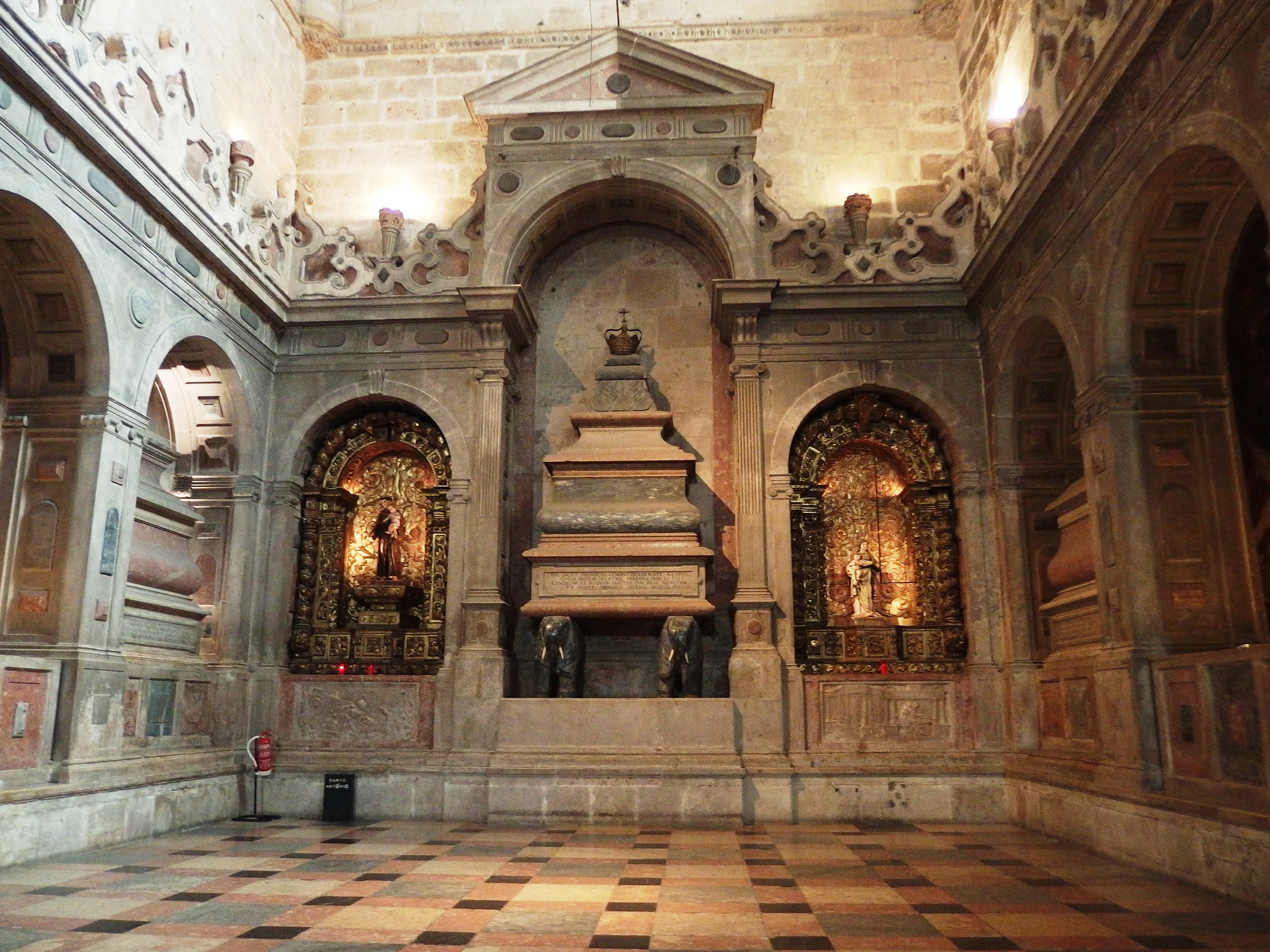 Lisbon, Portugal. Monastery of the Hieronymites, Church of Santa Maria.